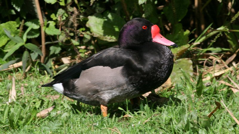 Rosybill Pochard (Netta peposaca) This image was created by Ken Billington. If you are interested in a high resolution copy of this image, please contact the author Ken Billington in order to negotiate conditions of use. Do not copy this image illegally by ignoring the terms of the license below, as it is not in the public domain. If you would like special permission to use, license, or purchase the image please contact me to negotiate terms. More free images can be found on Ken Billington's Bird & Wildlife Photography.